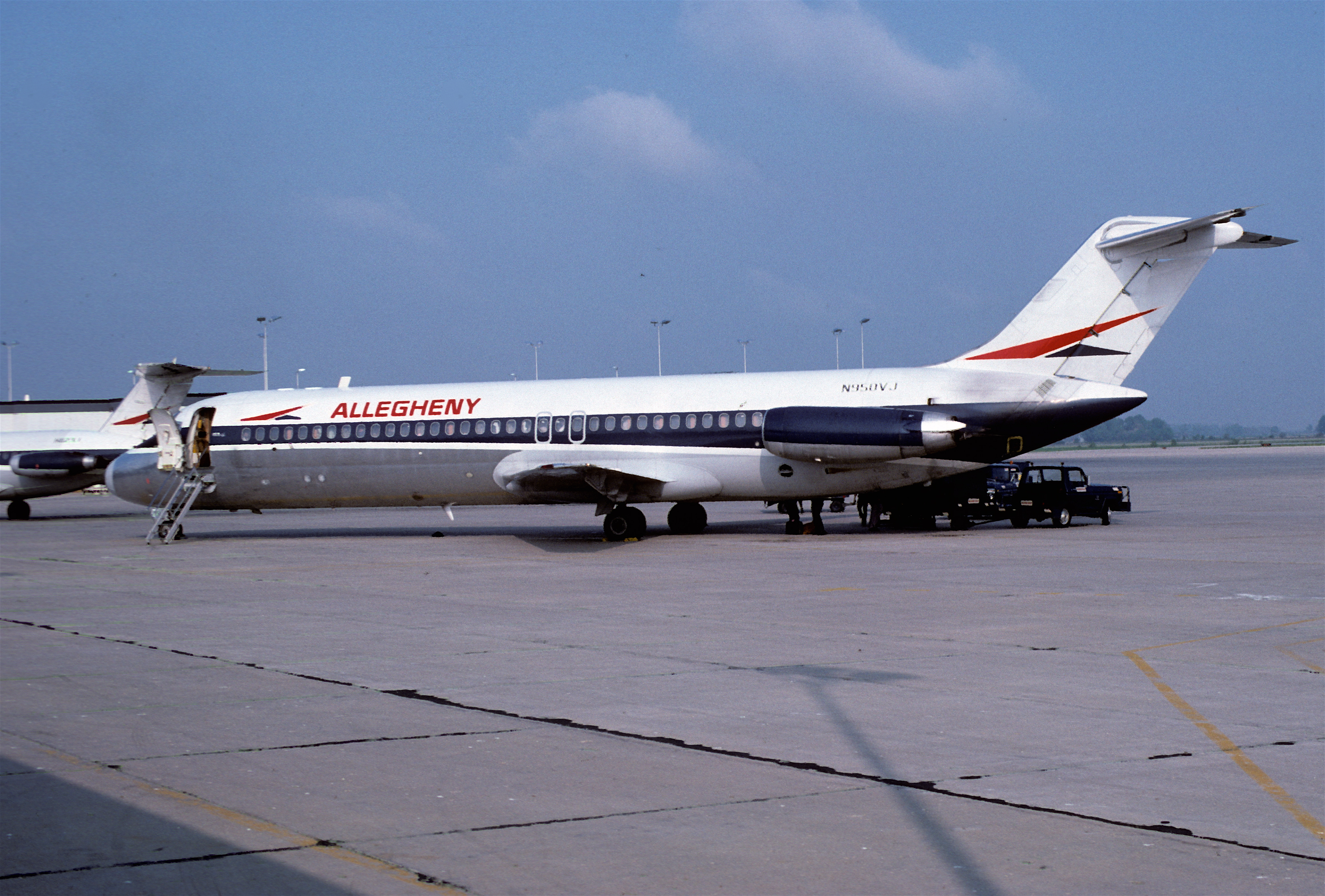 First flight: November 2, 1972, in service with USAir and finally with Express One, broken up around 2000/ 2001...